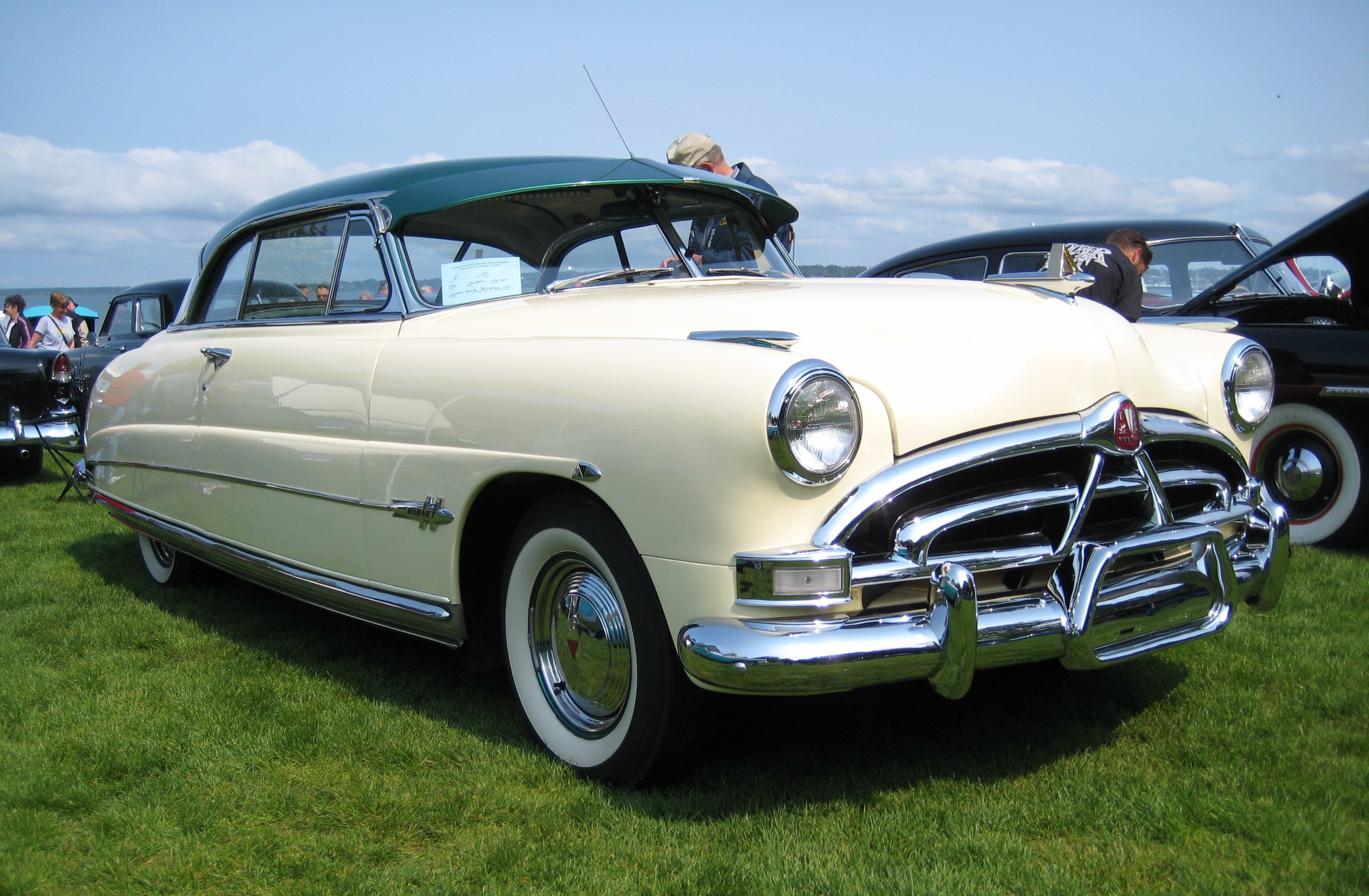 Bellingham spring car show, on the waterfront.